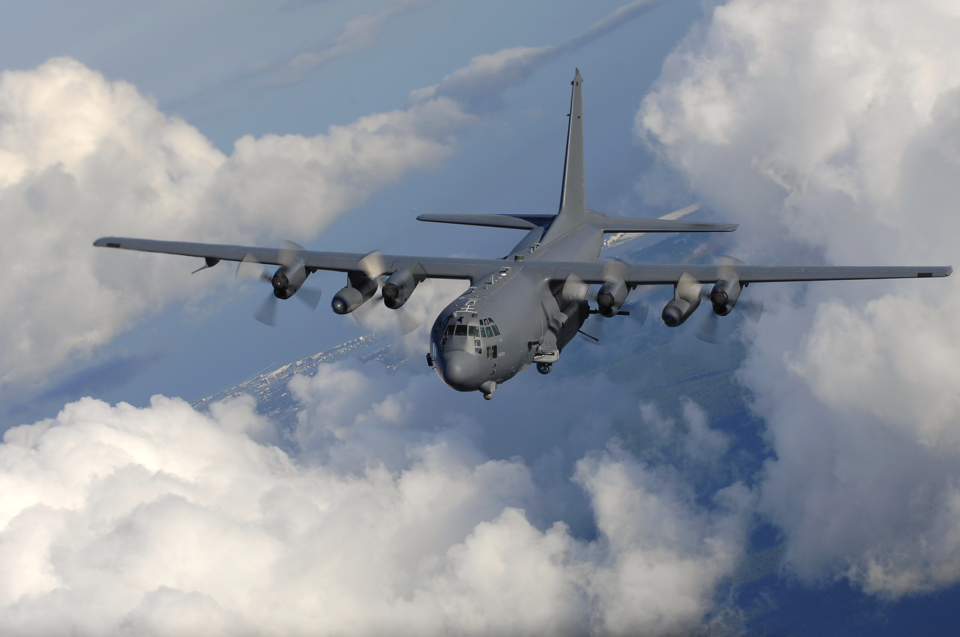 An AC-130U gunship from the 4th Special Operations Squadron, flies near Hurlburt Field, Fla., Aug. 20. The AC-130 gunship's primary missions are close air support, air interdiction and force protection.